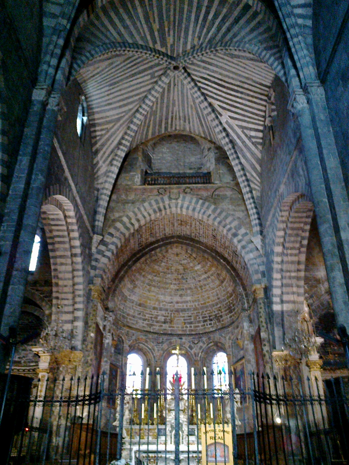 Hautes-Alpes Embrun Cathedrale Notre-Dame-Du-Real Choeur